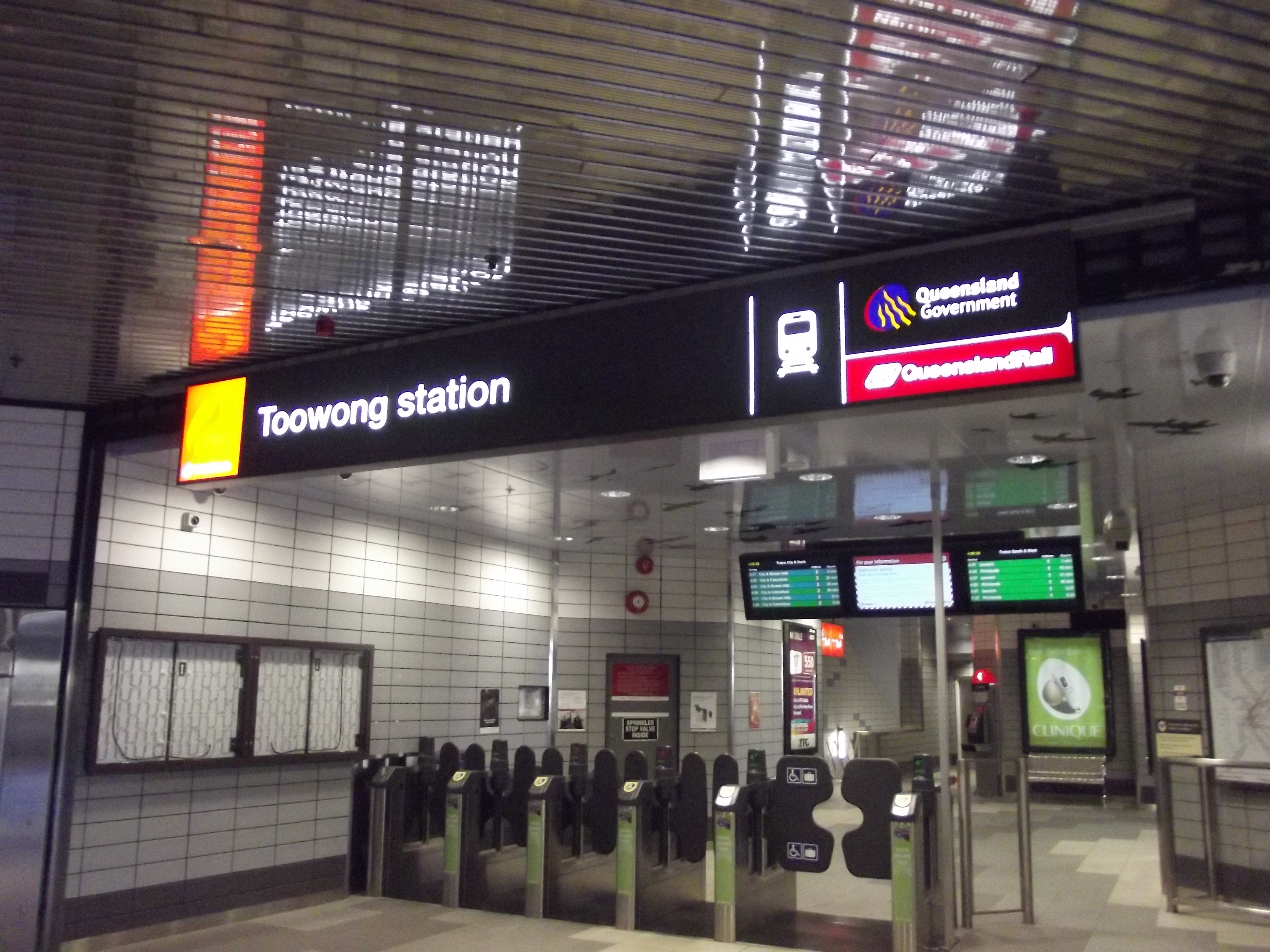 Toowong station new entrance.